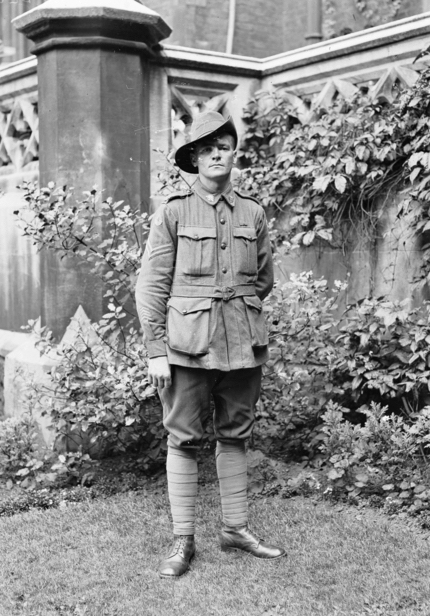 Informal portrait of 2389 Corporal Joergen Cristian Jensen VC, 50th Battalion (late 10th Battalion). He was awarded the Victoria Cross as a Private for most conspicuous bravery and initiative when, with five comrades, he attacked a barricade behind which were about forty five of the enemy and a machine gun on 2 April 1917 at Noreuil, France. Note the four service stripes on the right sleeve.